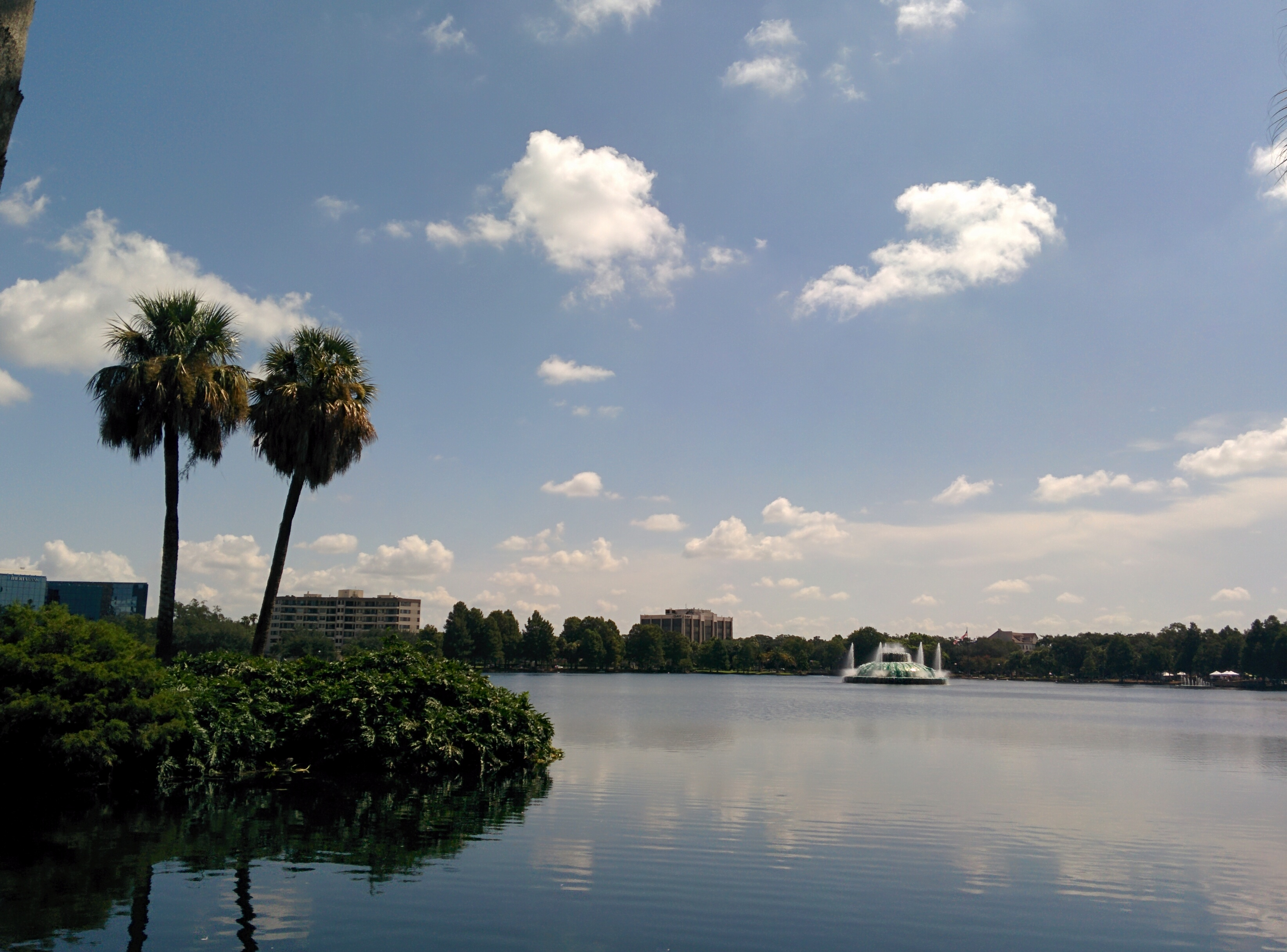 I love walking around Lake Eola Park, this photo of one of many I've made at this gorgeous location in downtown Orlando, FL. photo by Leonidas Bratini